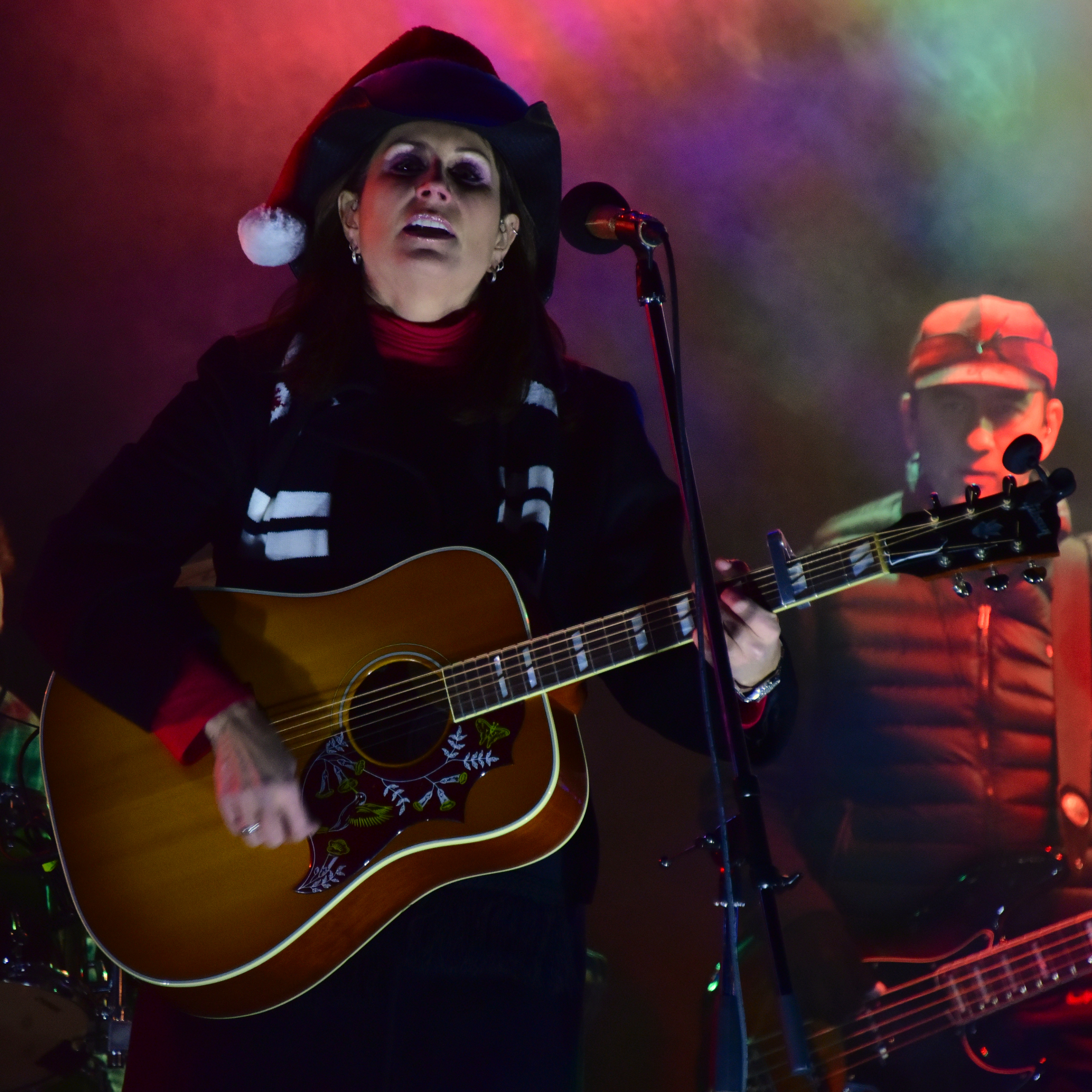 Country singer Terri Clark performs a benefit concert from the Canadian Pacific Holiday Train at Lions Park, Northeast Minneapolis.